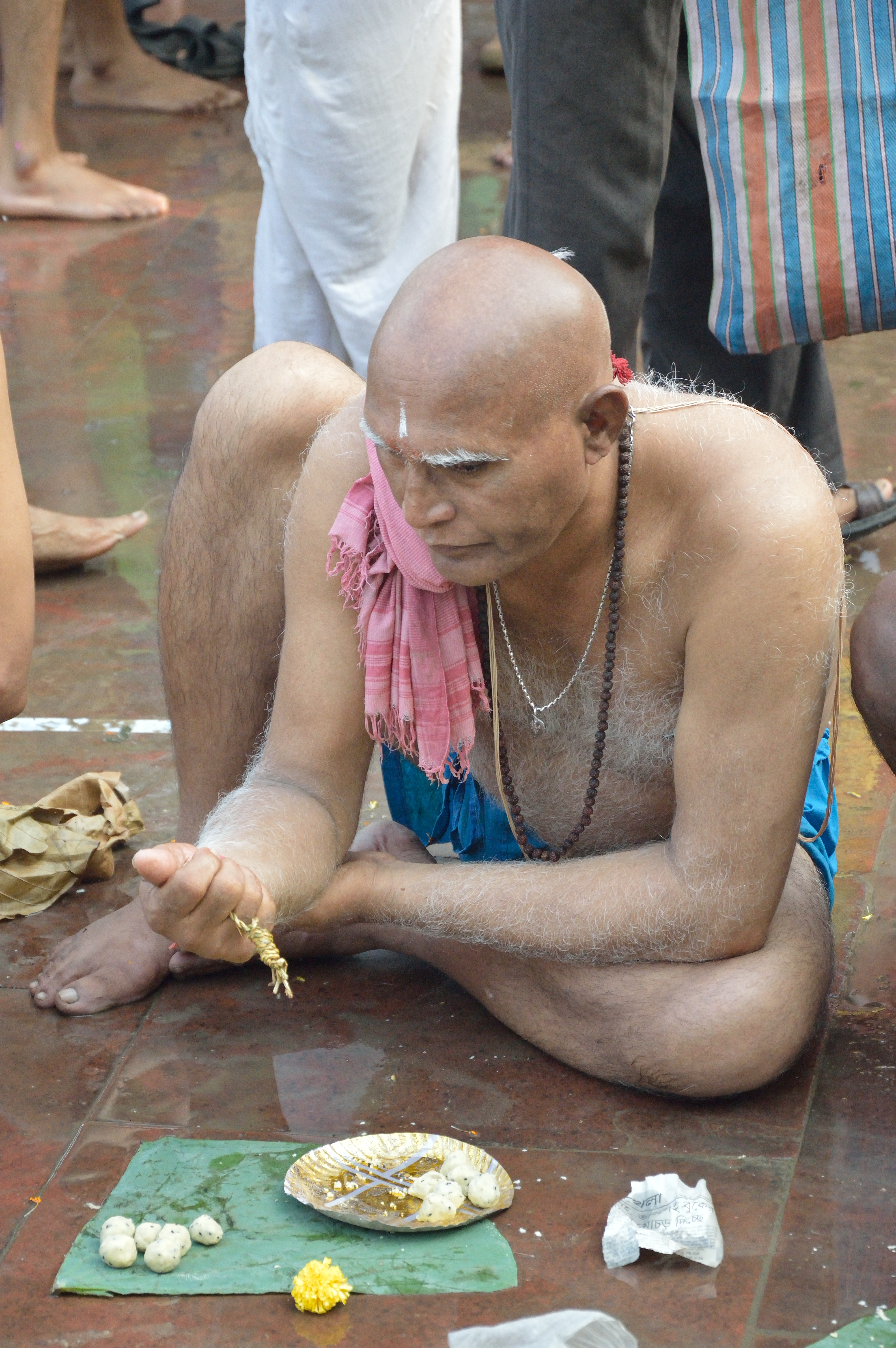 Pinda Daan or food offering to the manes - It is a Hindu ritual. It is well practised on the 'Mahalaya' day when 'Pitri Paksha' ends and 'Devi Paksha' starts, even on other dasy also.